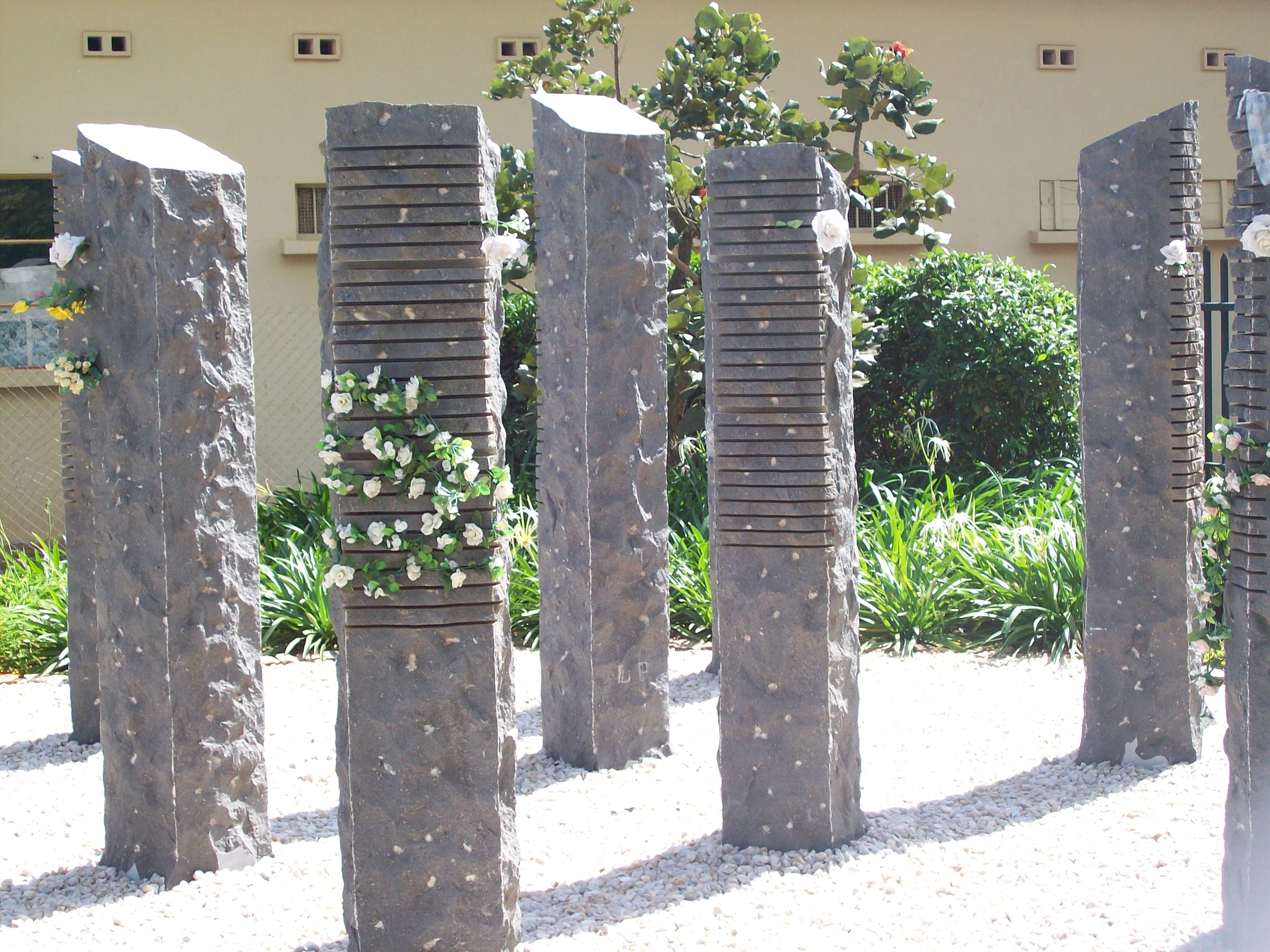 Memorial for the dead belgian UNAMIR Blue Berets in Kigali, Rwanda